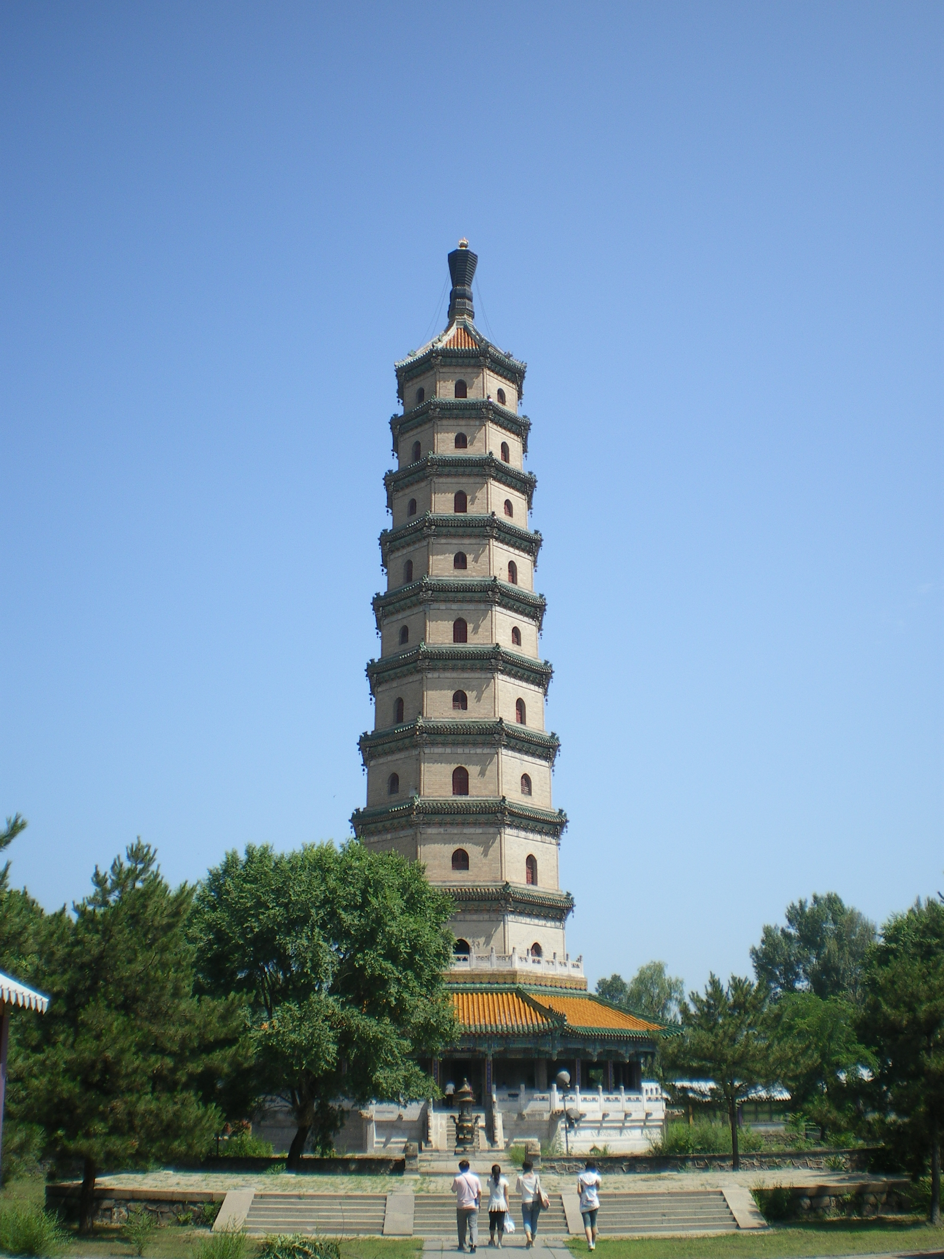 The Mountain Resort in Chengde